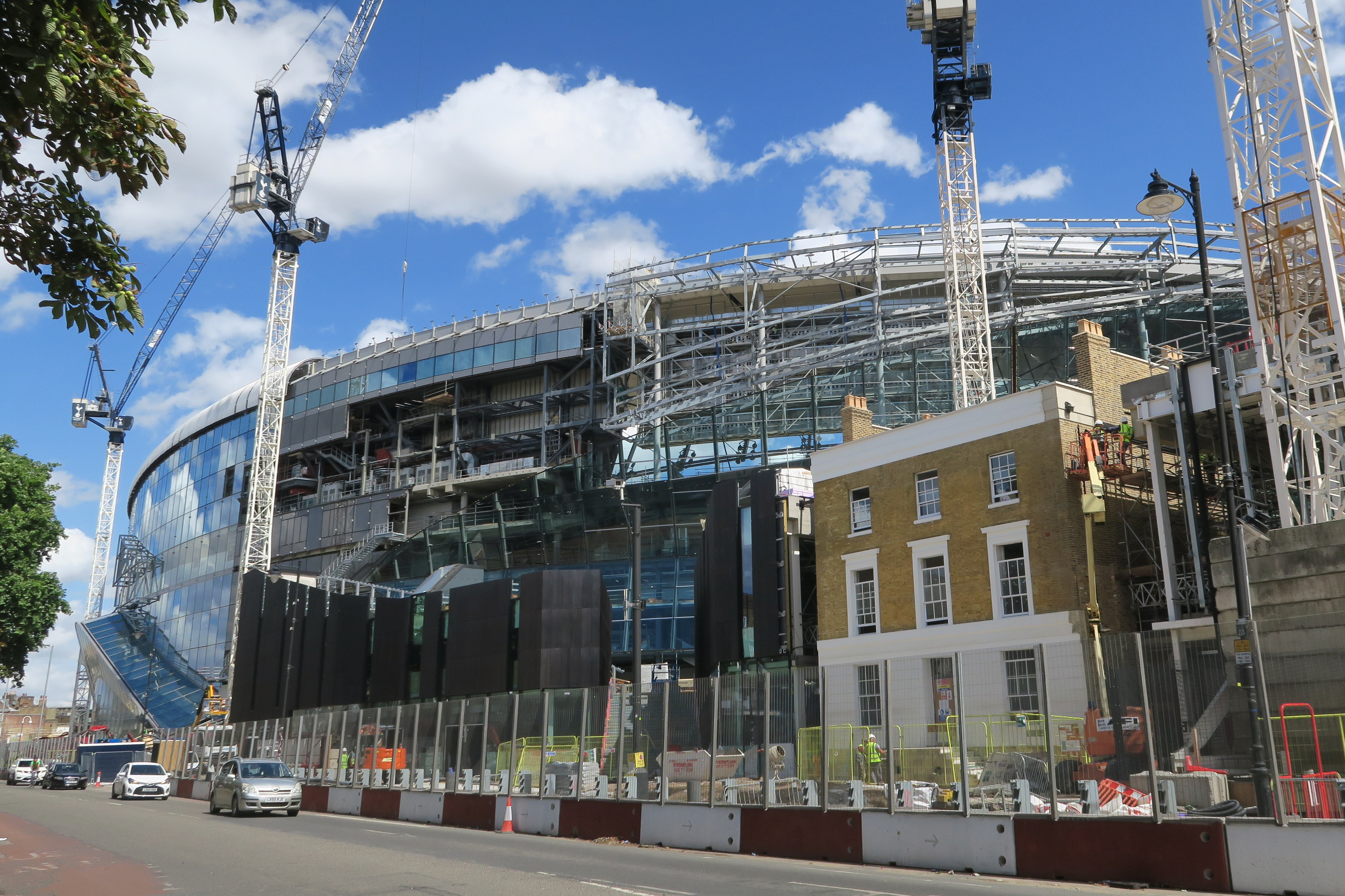 Tottenham Experience including Warmington House and club shop under construction, July 2018